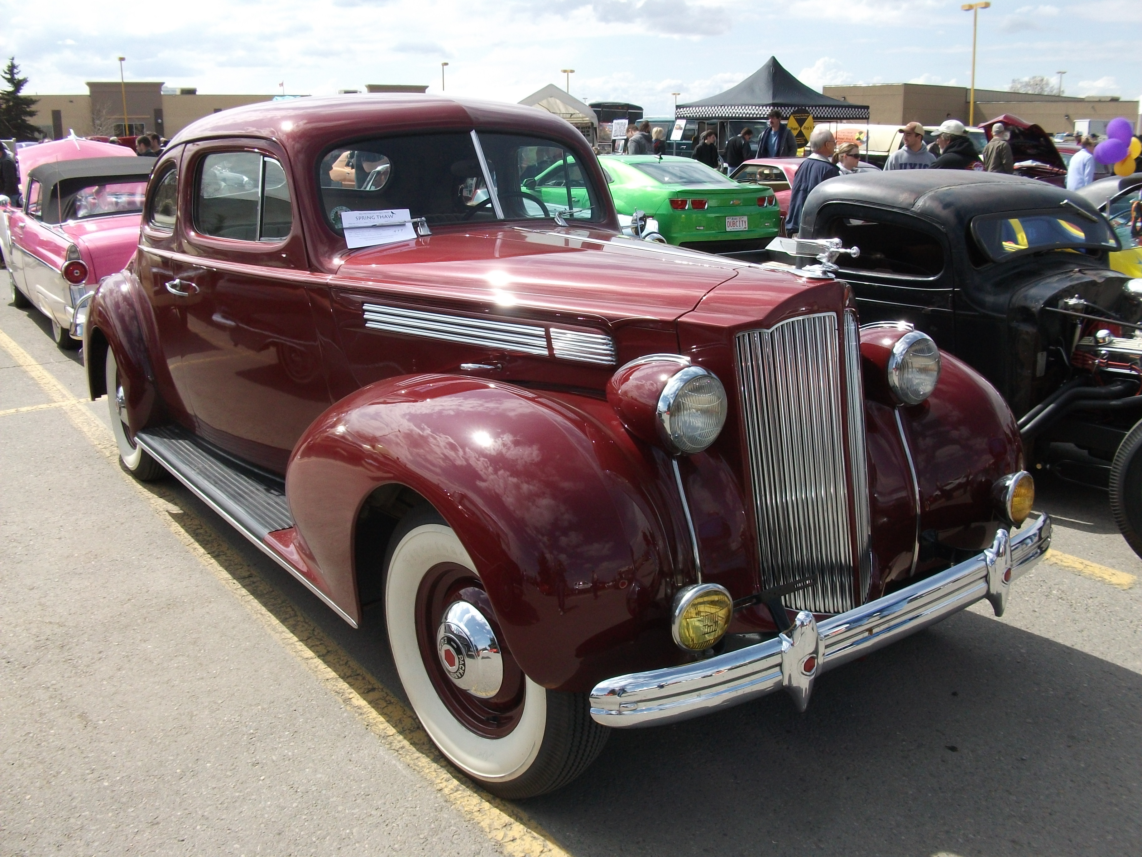 1939 Packard One-Twenty model 1701 Business Coupe (body style #1298)